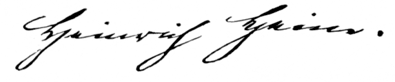 Signature of Heinrich Heine